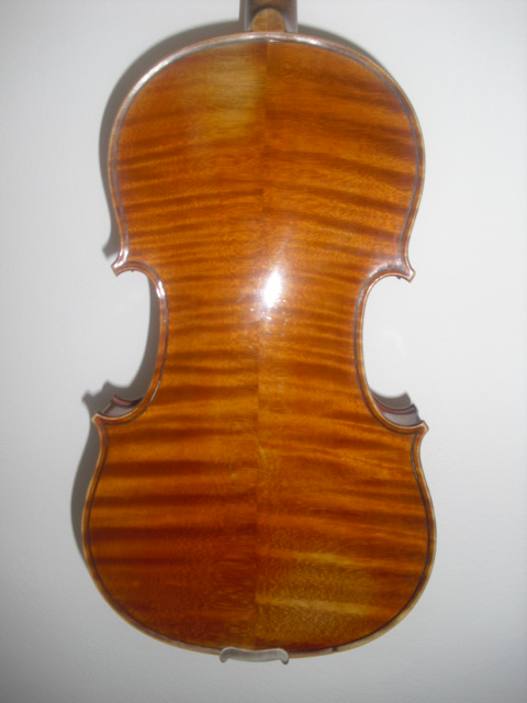 Charles Jean B.Collin-Mezin,Violin_1890